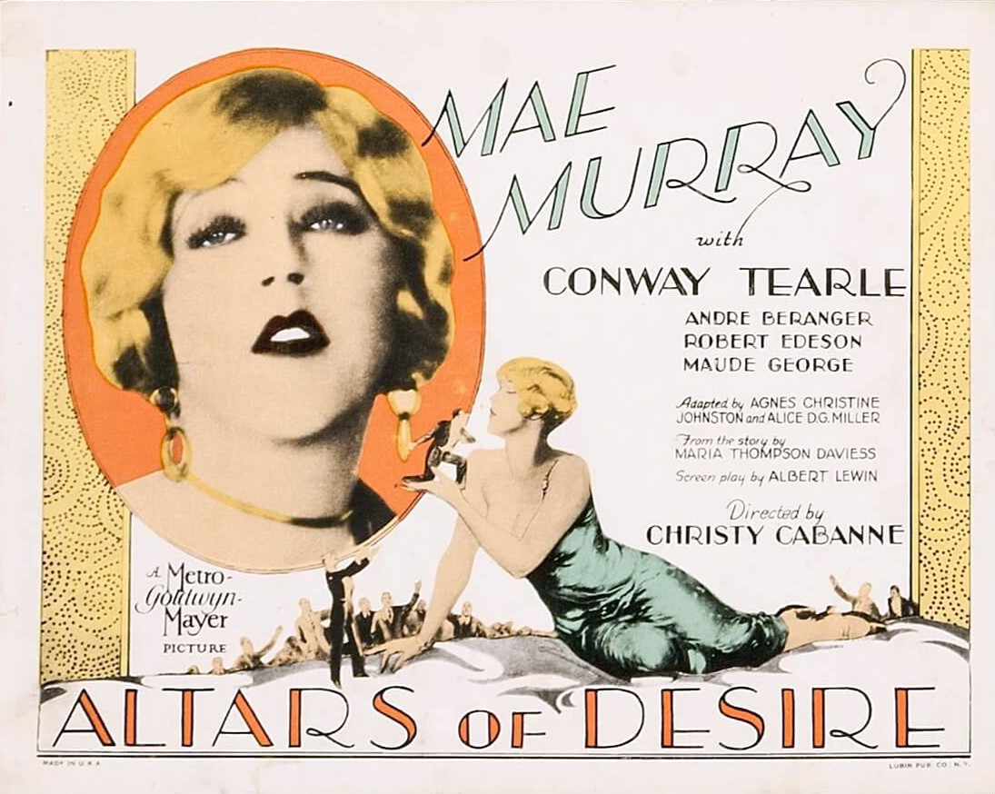 Lobby card for the American drama film Altars of Desire (1927).